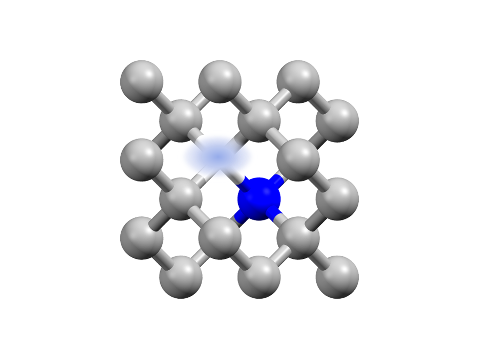 Schematic of a nitrogen vacancy centre in the diamond lattice, viewed along the [100] axis. The dark blue sphere indicates a substitutional nitogen atom whilst the shaded region indicates a vacancy. Carbon atoms are shown as grey spheres, whilst bonds between atoms are shown as grey sticks.